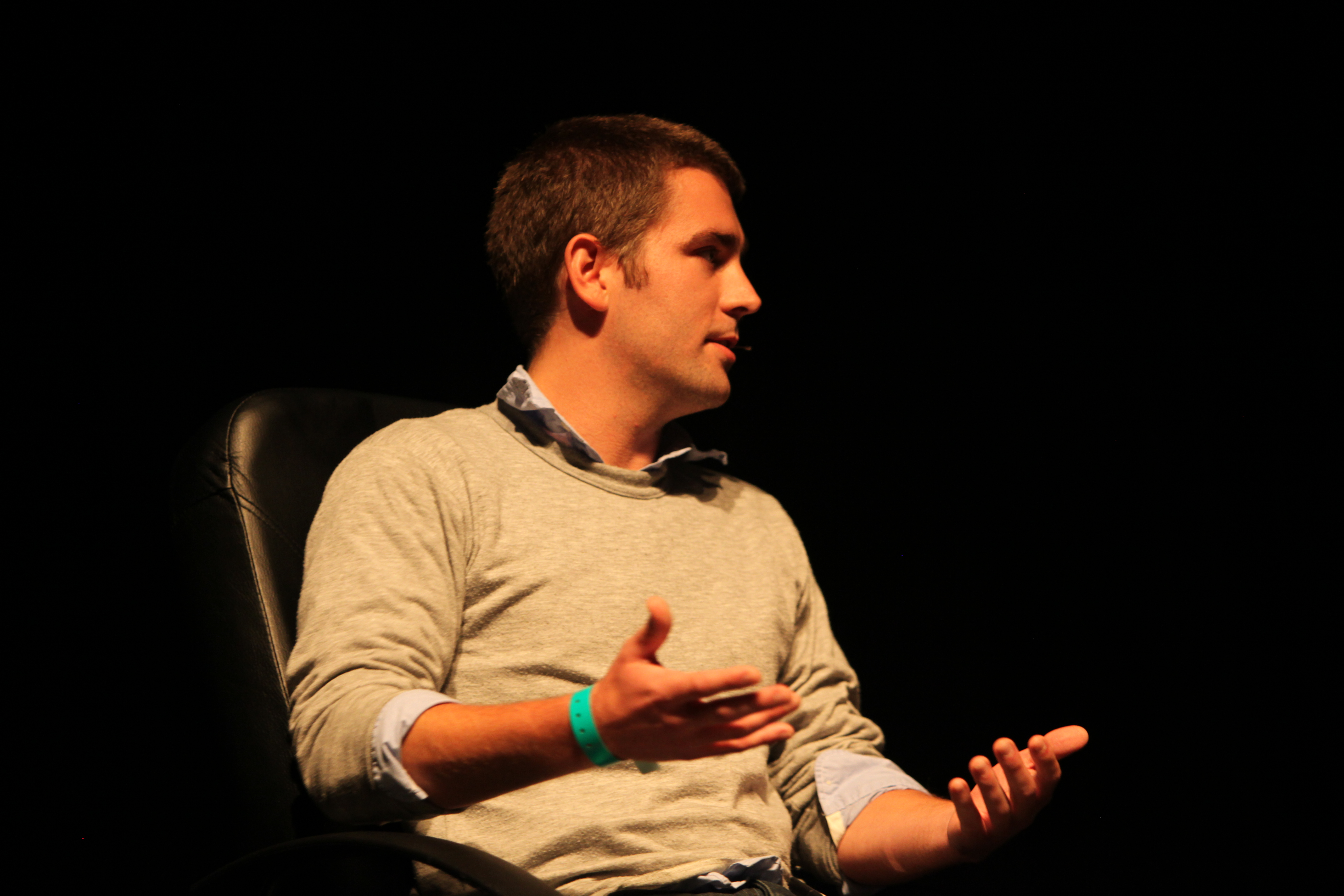 Chris Cox of Facebook talking at the Real Time Stream CrunchUp conference in 2009.